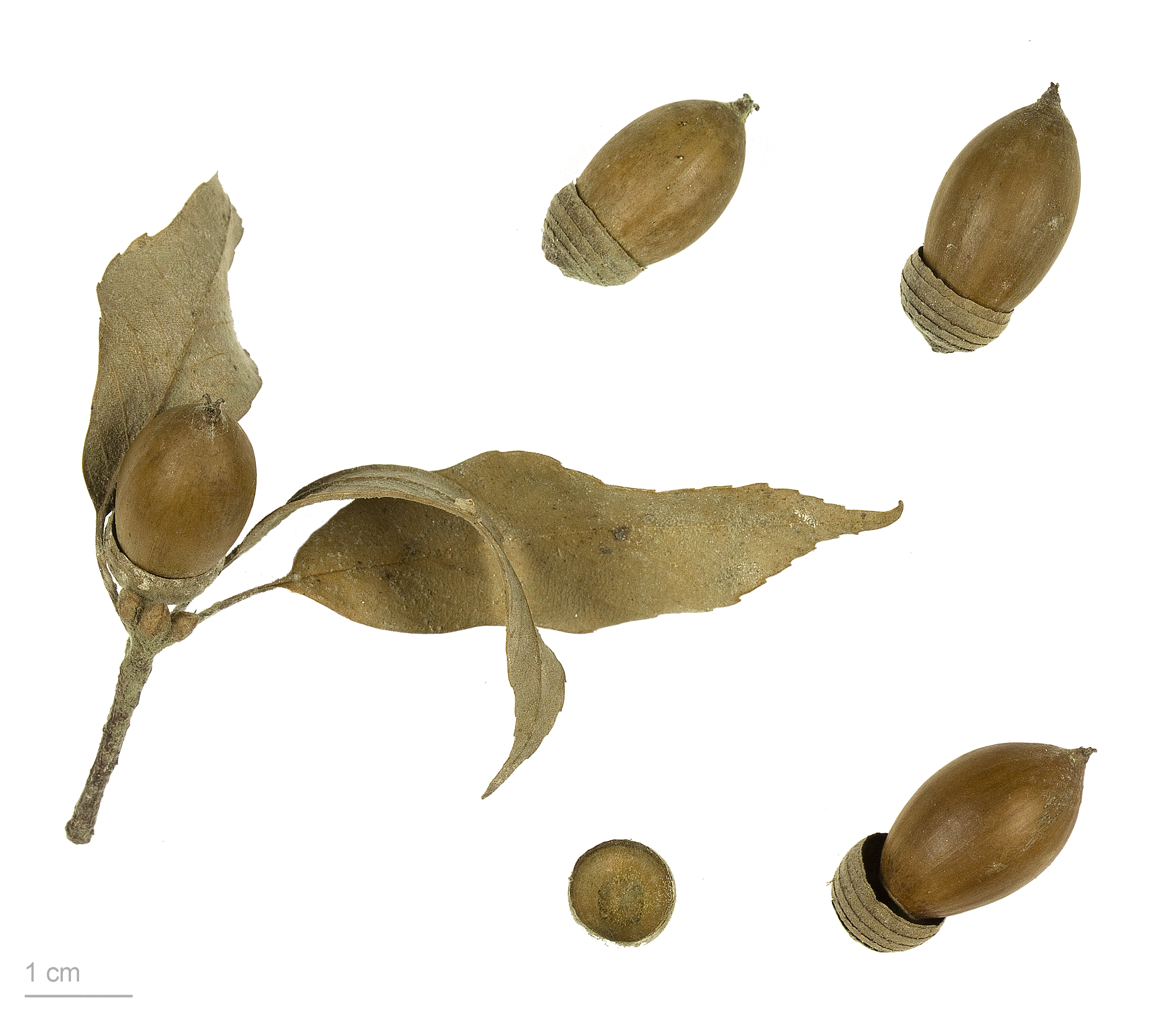 Japanese Blue Oak , fruits and seeds